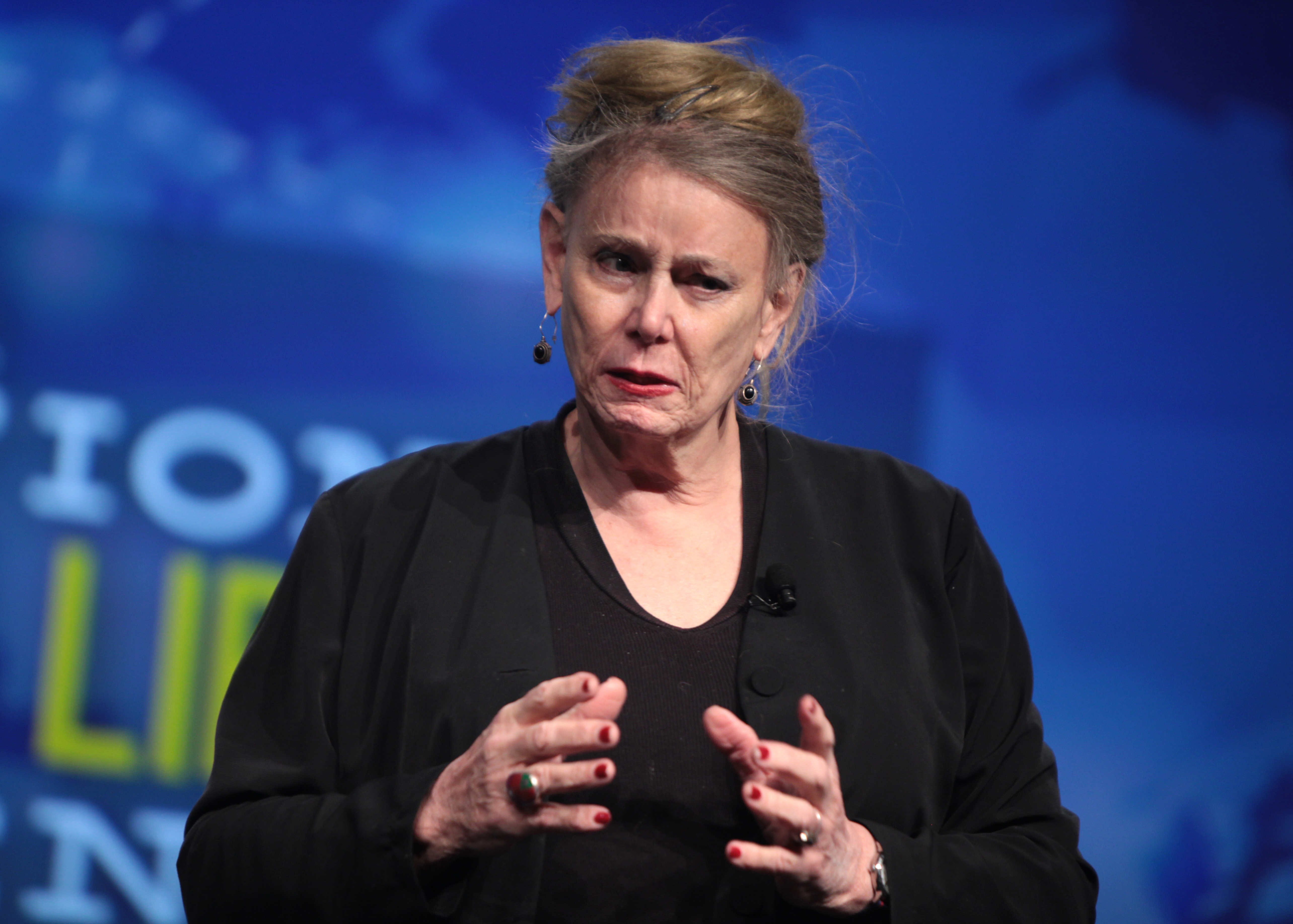 Deirdre McCloskey speaking at an event in Washington, D.C.